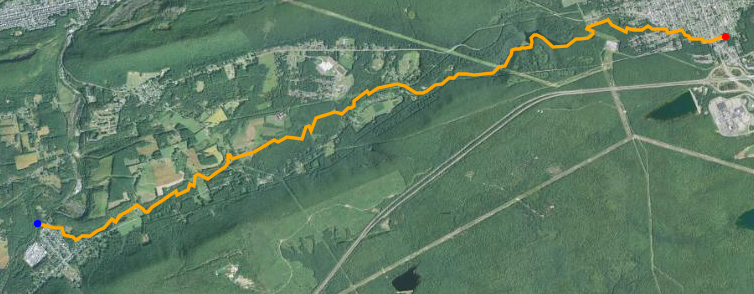 Satellite map of Little Mahanoy Creek . The red dot is the stream's source and blue dot is its mouth. Data available from U.S. Geological Survey, National Geospatial Program.